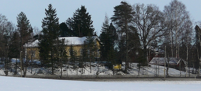 The manor of Söderskog at Espoo.